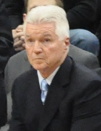 Detroit Pistons assistant coach Brian Hill at the Target Center in Minneapolis